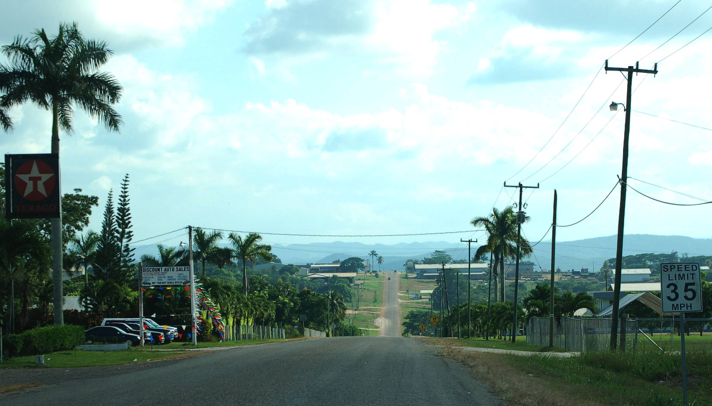 This is the main drag at Spanish Lookout, Belize. On Sunday it was deserted except for a few kids doing wheelies on motorcycles. Maya Mountains in distance.